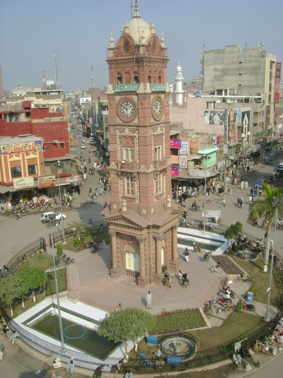 The Faisalabad Clock Tower is a clock tower in Faisalabad, Punjab, Pakistan, and is one of the oldest monuments still standing in its original state from the period of the British Raj. It was built by the British, when they ruled much of the South Asia during the nineteenth century. The foundation of majestic Clock Tower was laid on 14 November 1903 by the British lieutenant governor of Punjab Sir Charles Riwaz and the biggest local landlord belonging to the Mian Family of Abdullahpur. The fund was collected at a rate of Rs. 18 per square of land. The fund thus raised was handed over to the Municipal Committee which undertook to complete the project. The locals refer to it as "Ghanta Ghar" which translates into Hour House in English. It is located in the older part of the city. The clock is placed at the center of the eight markets that from a bird's-eye view look like the Union Jack flag of the United Kingdom.